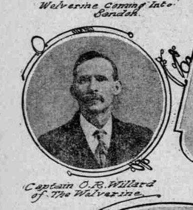 Capt Orsan R. Willard, commanded motor vessel Wolverine and steamer Antelope in southwest coast area of Oregon.